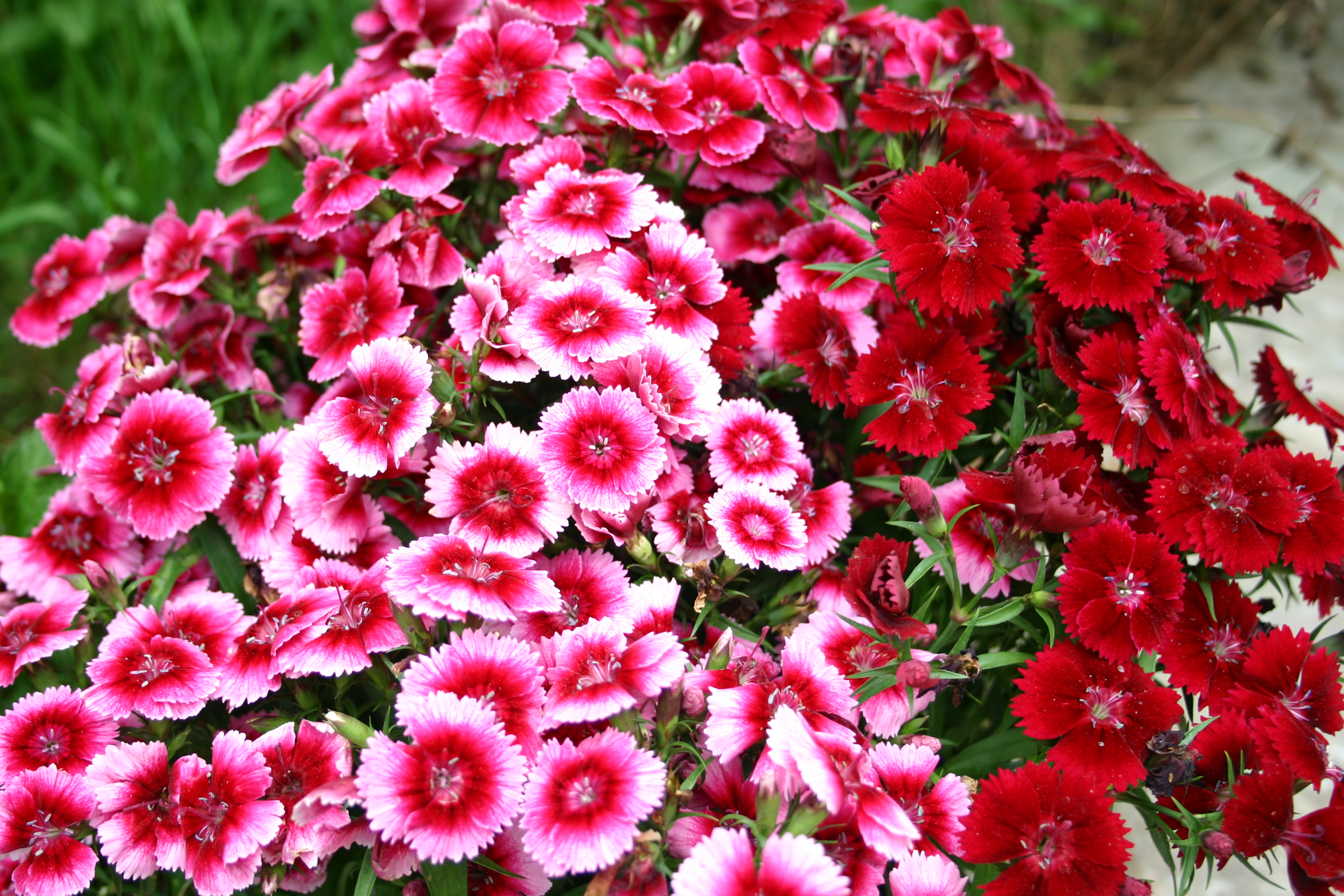 Dianthus barbatus (Sweet William). flower